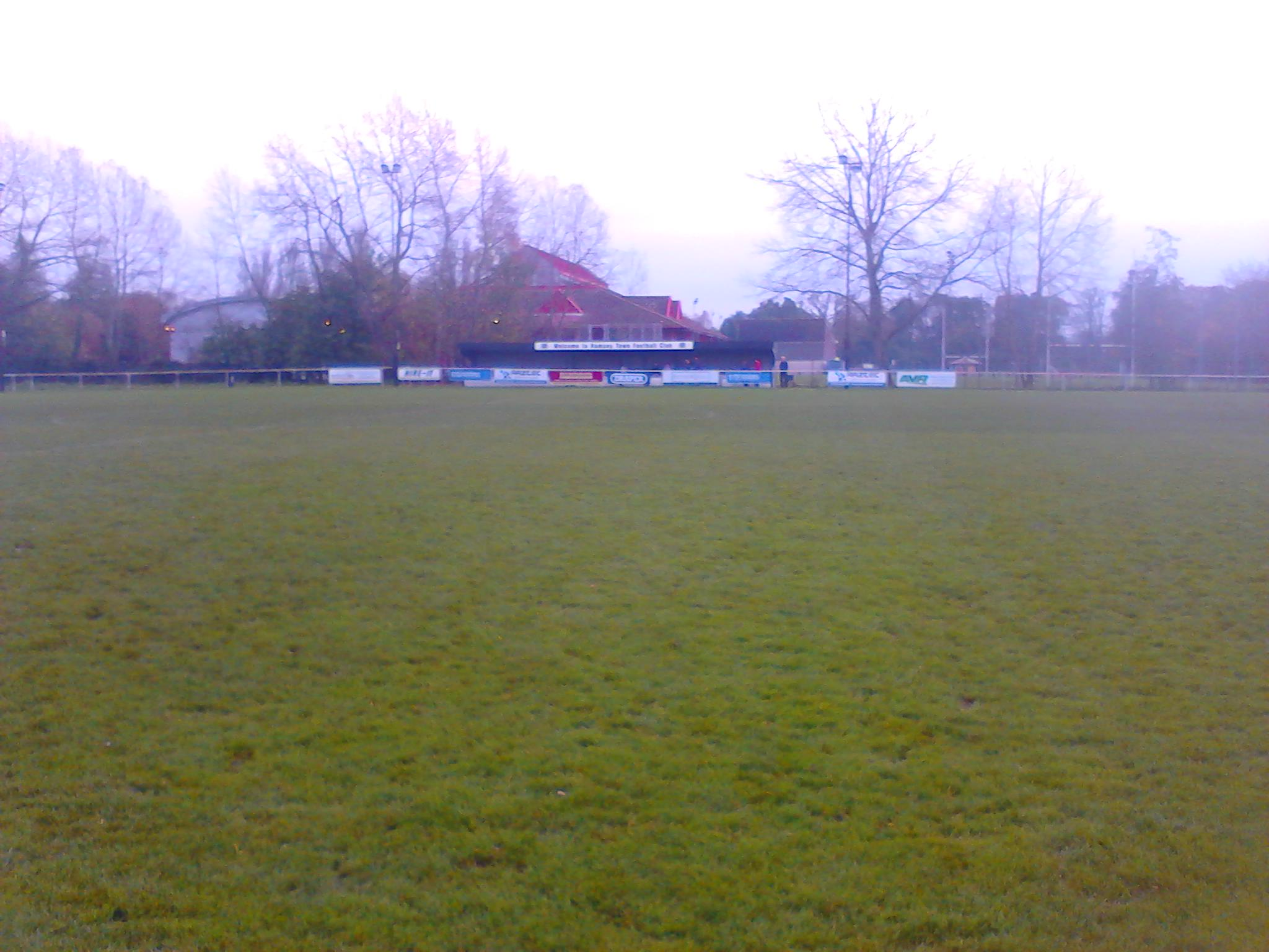 A picture of Romsey Town FC's home ground - the Bypass Ground.